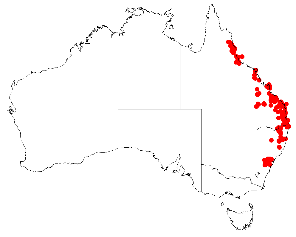 Acrotriche aggregata Occurrence data from Australasian Virtual Herbarium downloaded 23 November 2018 using